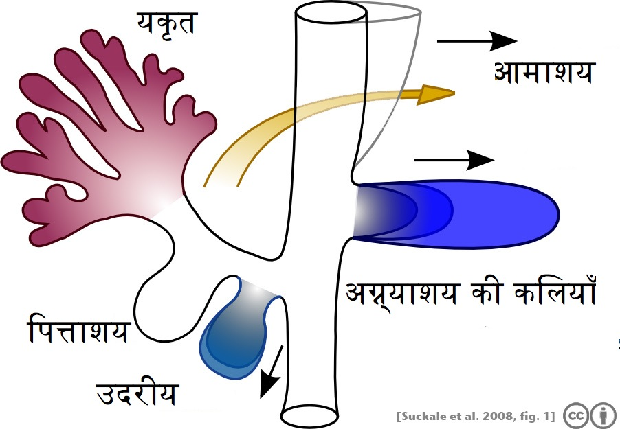 schematic illustrating the development of the pancreas from a dorsal and a ventral bud